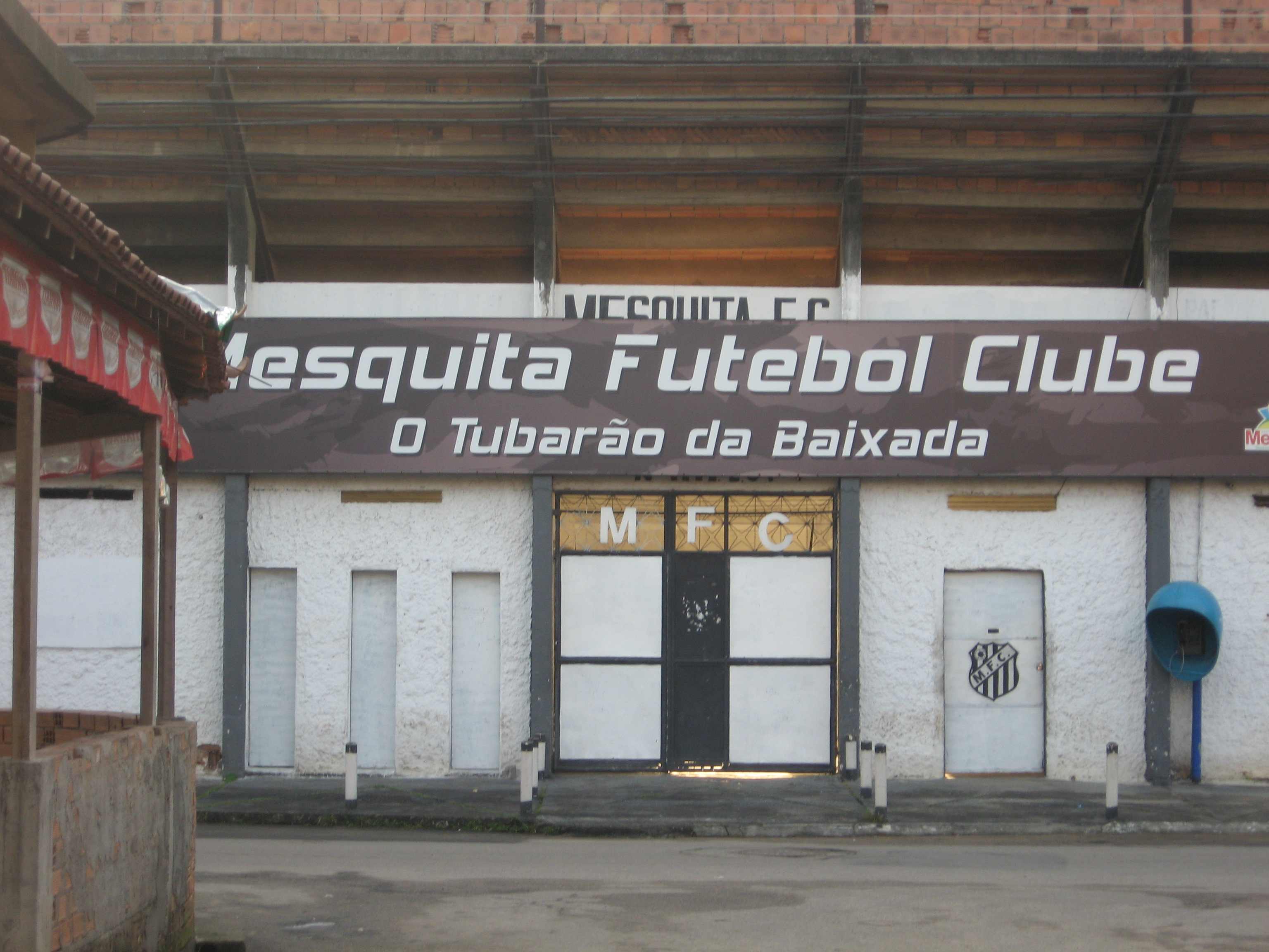 Nielsen Louzada stadium, Mesquita Futebol Clube, Mesquita, Rio de Janeiro, Brazil.